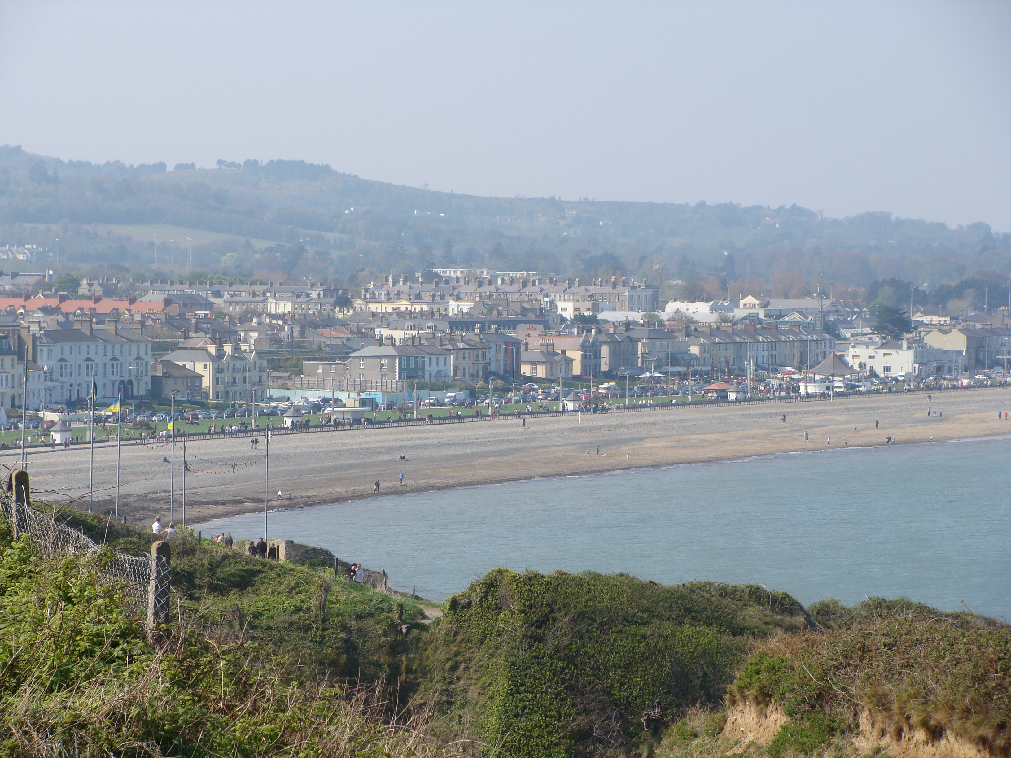 Bray, the view from Bray Head